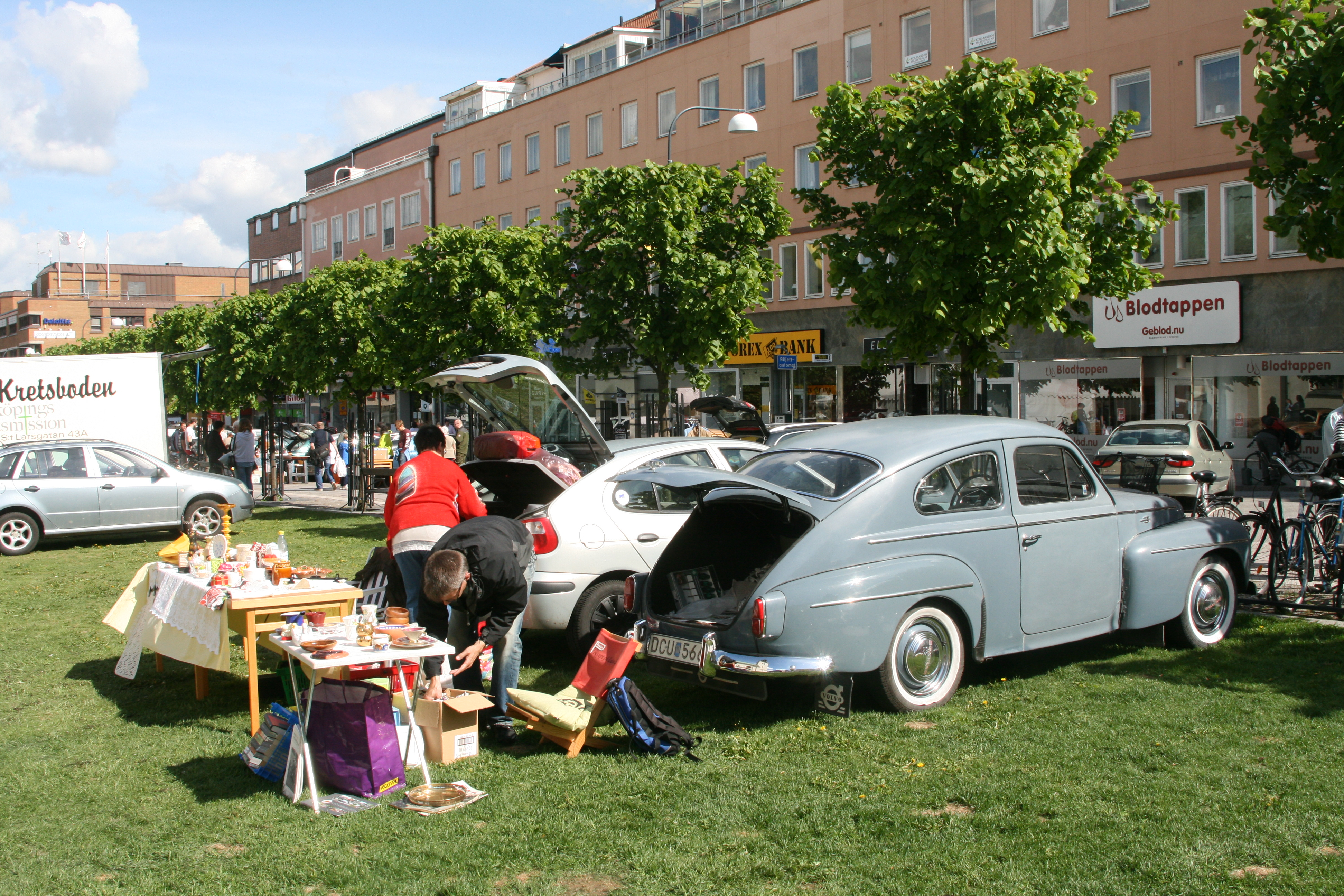 Grey Volvo PV544 model year 1961 with whitewalls used in a car boot sale in St. Lars park near St. Lars church in Linköping, Sweden